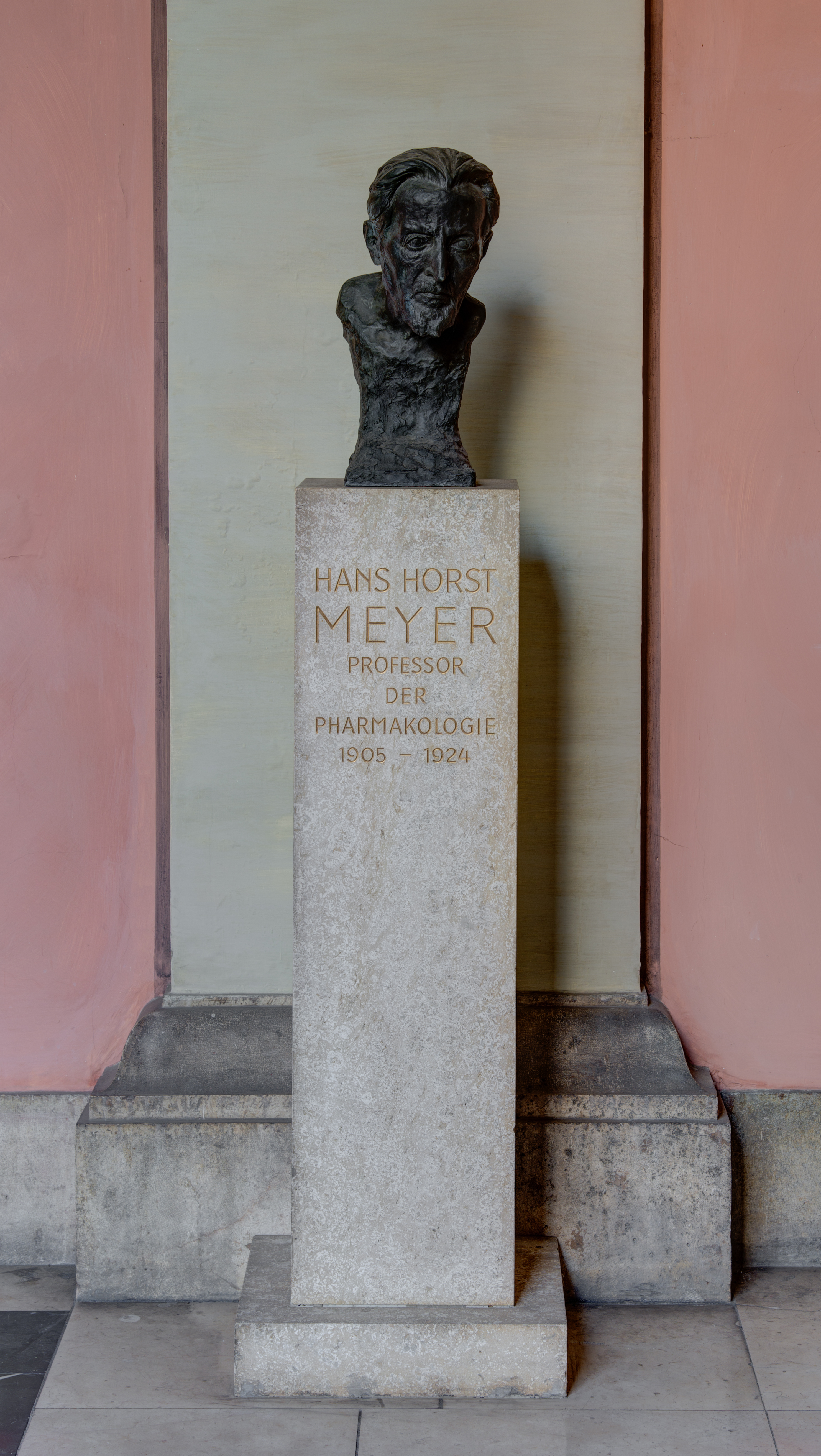 Hans Horst Meyer (1853-1939), bust (dark bronze) in the Arkadenhof of the University of Vienna, (Maisel# 78). Artist: Grete Hartmann, unveiled 1953